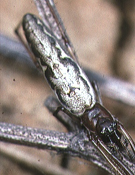 female Tetragnatha ceylonica from Okinawa.